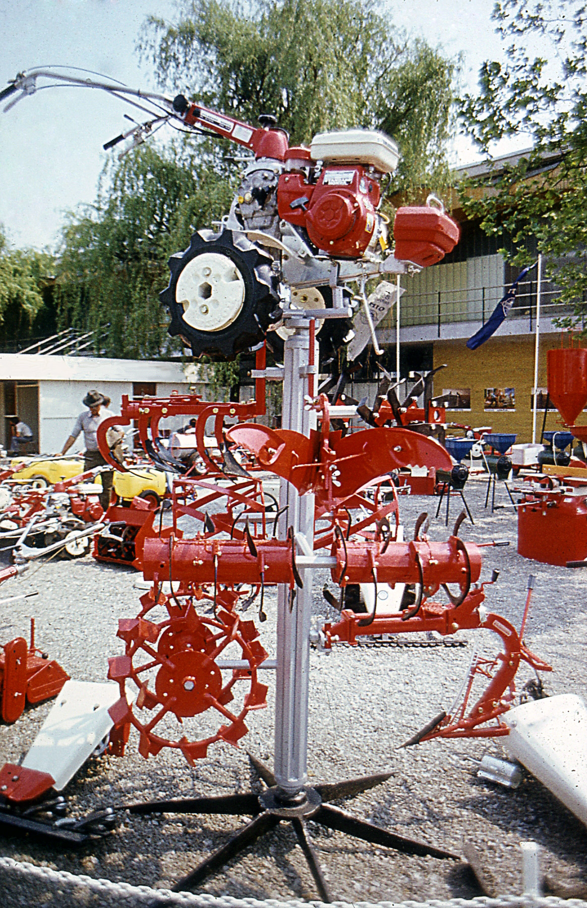 Single-axle tractor Honda with implements.JPG